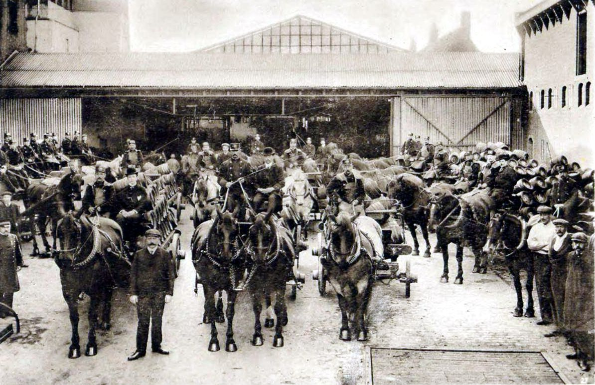 Zuid-Hollandsche Bierbrouwerij, 1920